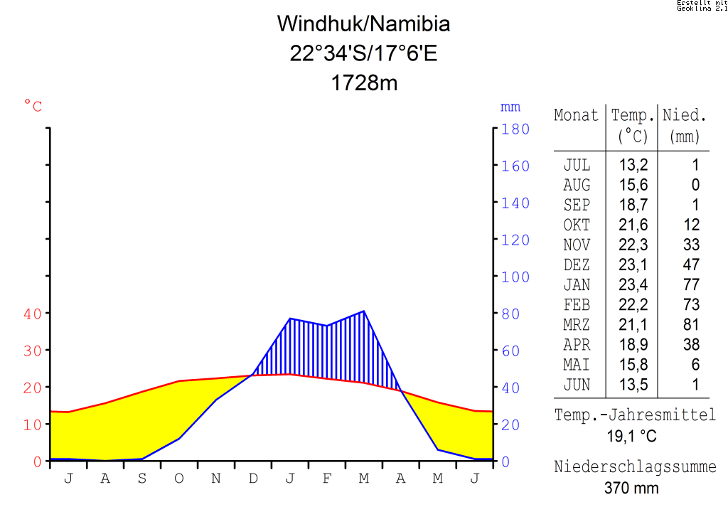 climate chart in the format by Walther and Lieth, metric, °Celsisus and millimeters, made with Geoklima 2.1 DateOctober 2006SourceSoftware: Geoklima 2.1 Website GeoklimaAuthorHedwig in WashingtonPermission (Reusing this file) Own work, attribution required (Multi-license with GFDL and Creative Commons CC-BY 2.5)